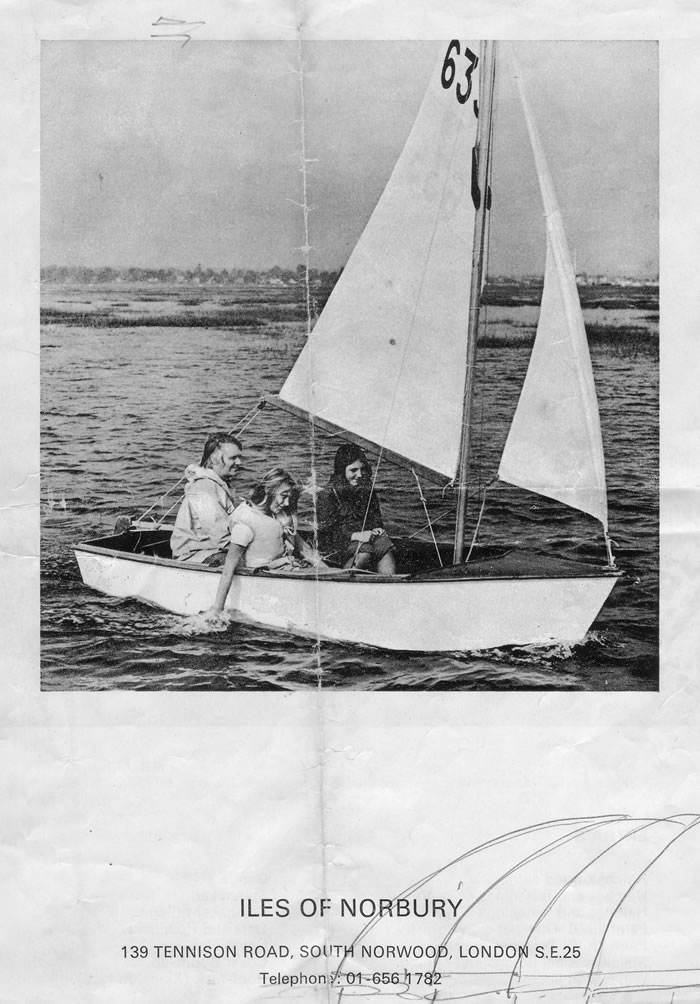 Mermaid sailing dinghy with the designer Roger Hancock and his daughters